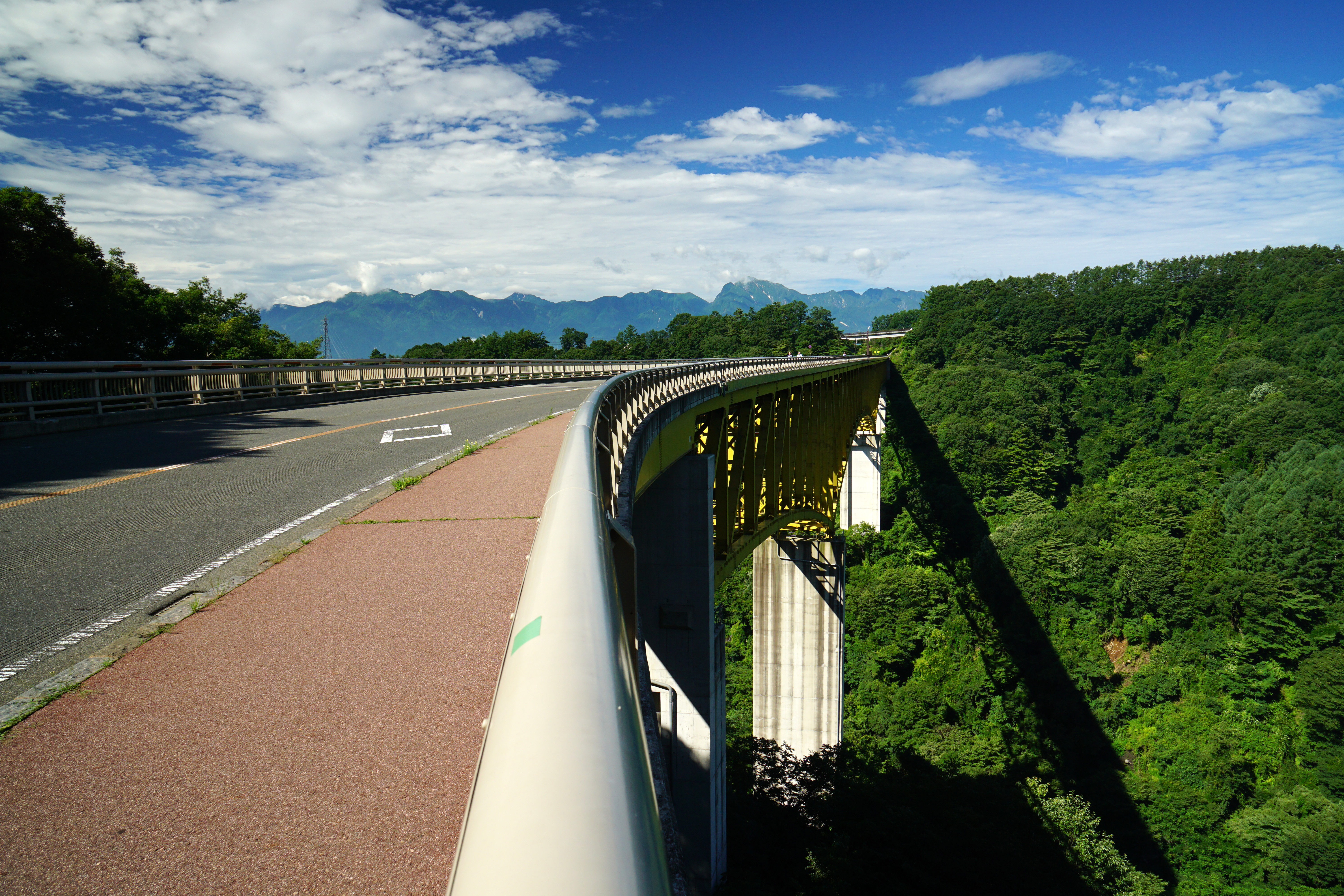 At Yatsugatake Kogen Ohashi Bridge in Hokuto, Yamanashi prefecture, Japan.